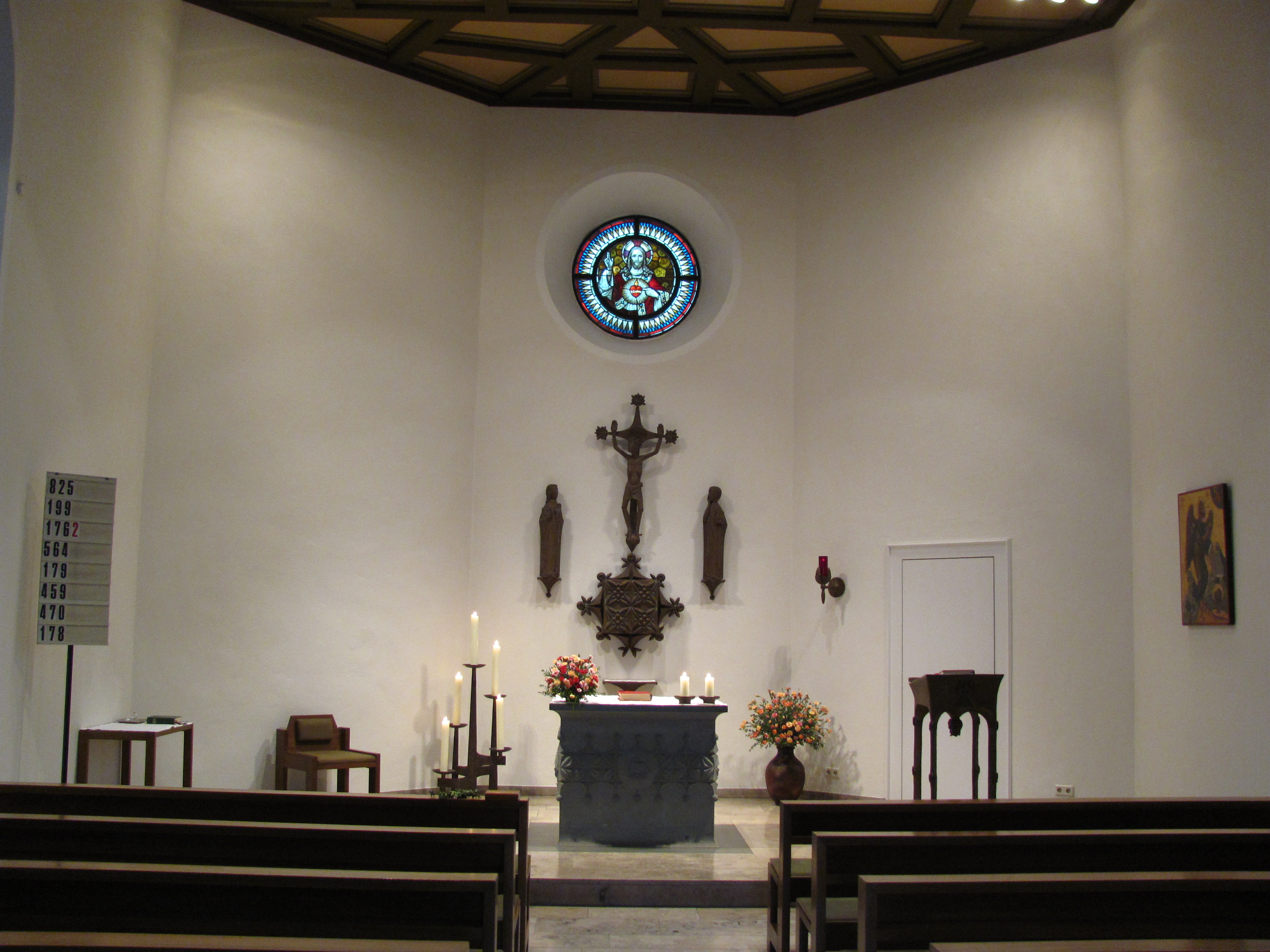 Catholic Church, Bad Salzdetfurth-Wesseln, Lower Saxony, Germany.